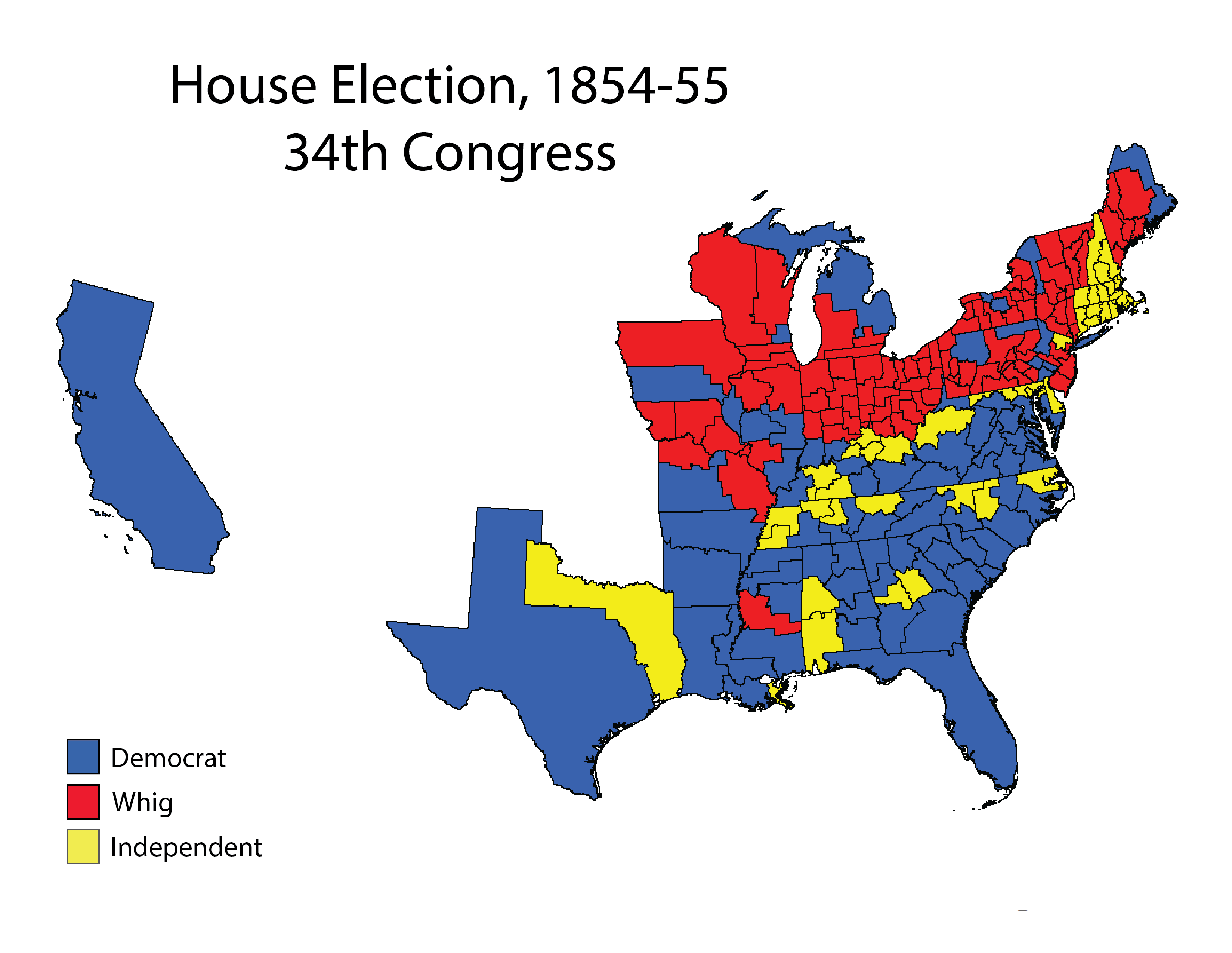 Map of U.S. House elections results from 1854-55 elections for 34th Congress